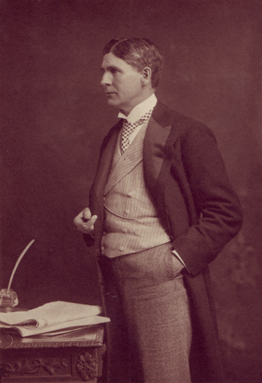 Photograph of Donald Macmaster (1846-1922). Date: [between 1895 and 1903] Photographer: Elliott & Fry Reference code: P557